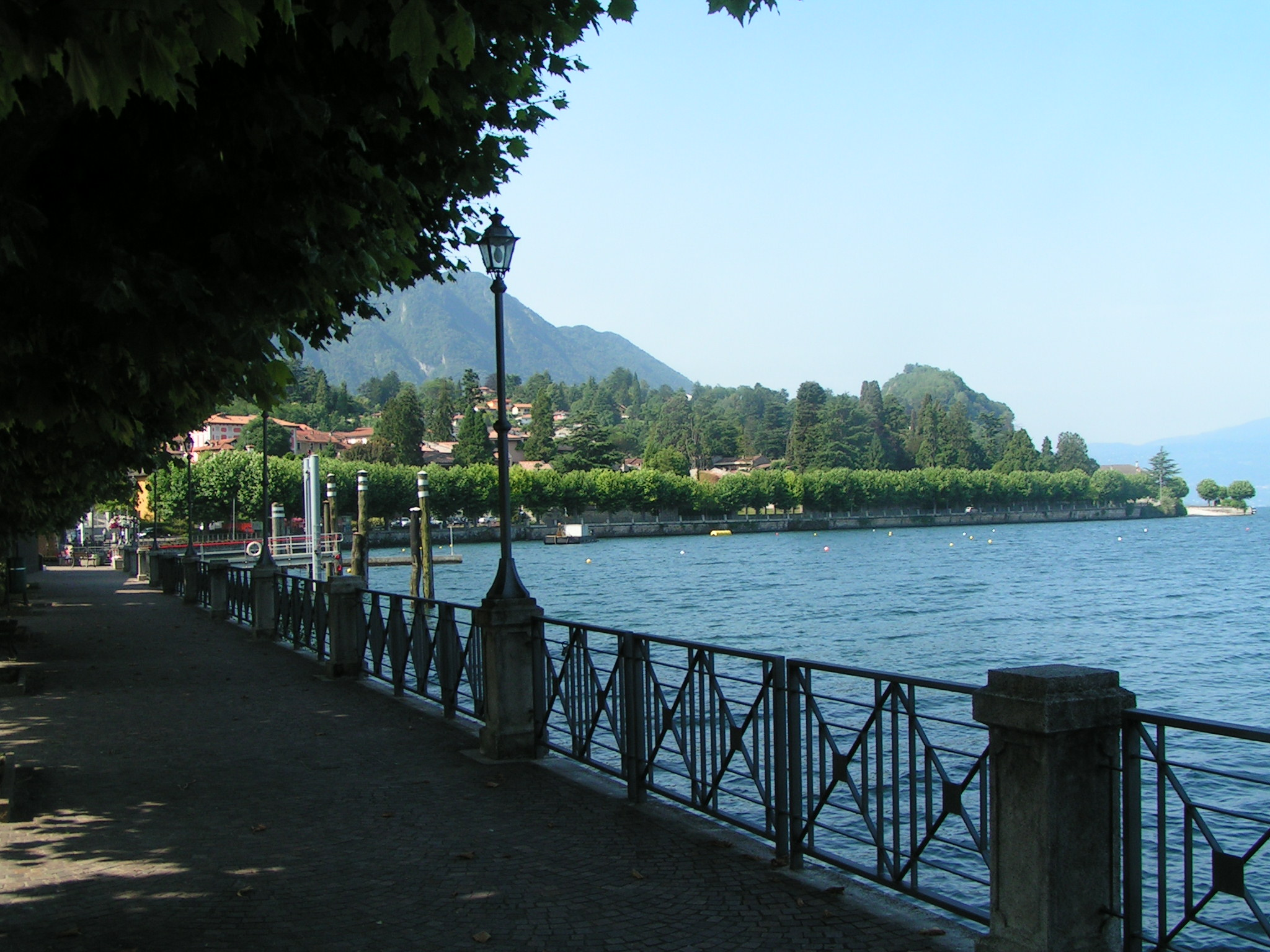 Porto Valtravaglia: Promenade at the bank of Lago Maggiore